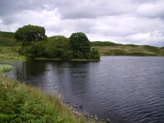 Gurnal Dubs The wooded promontory appears as an island on the OS Map.The Tarn was called Fothergill Tarn named after some previous owners the Fothergills of Lowbridge House. This Tarn and Potter tarn nearby were used by James Cropper of papermaking fame. The mill is still going in Burneside.